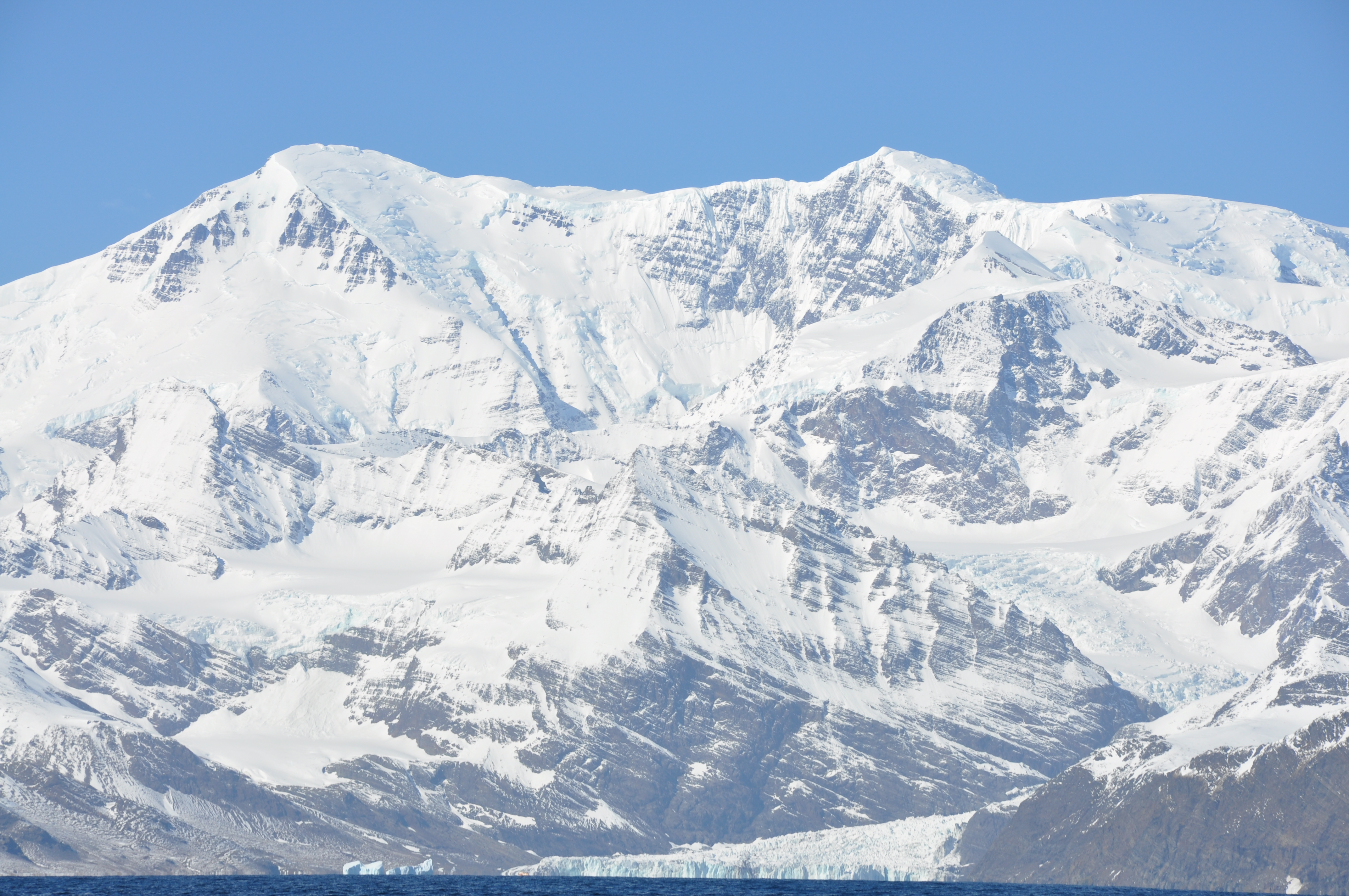 Mount Paget (2934 m) - South Georgia